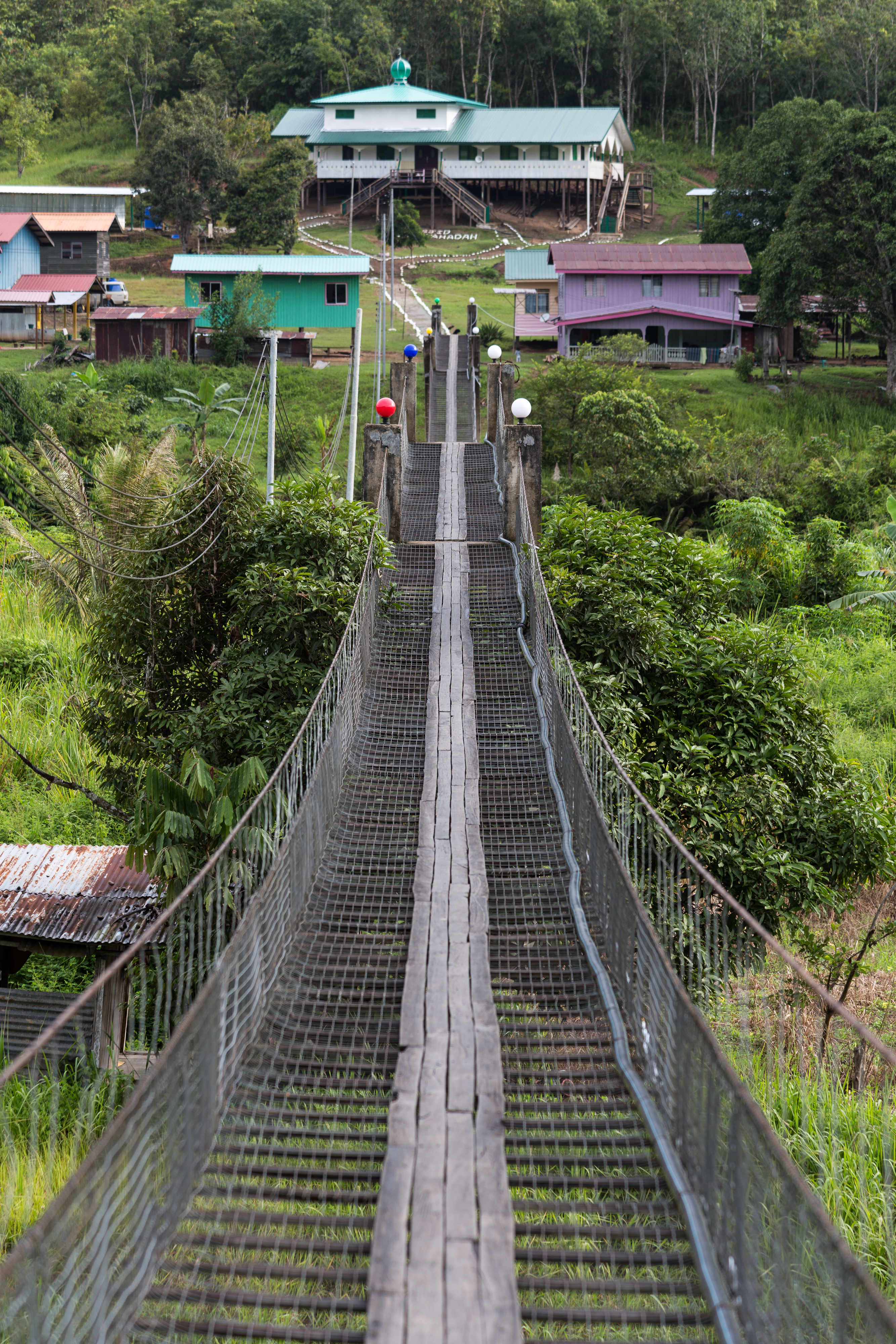 Sapulut, Sabah: Kampung Padang with the swinging bridge over Sungai Talangkai. The bridge is spanning the former airfield Sapulut.